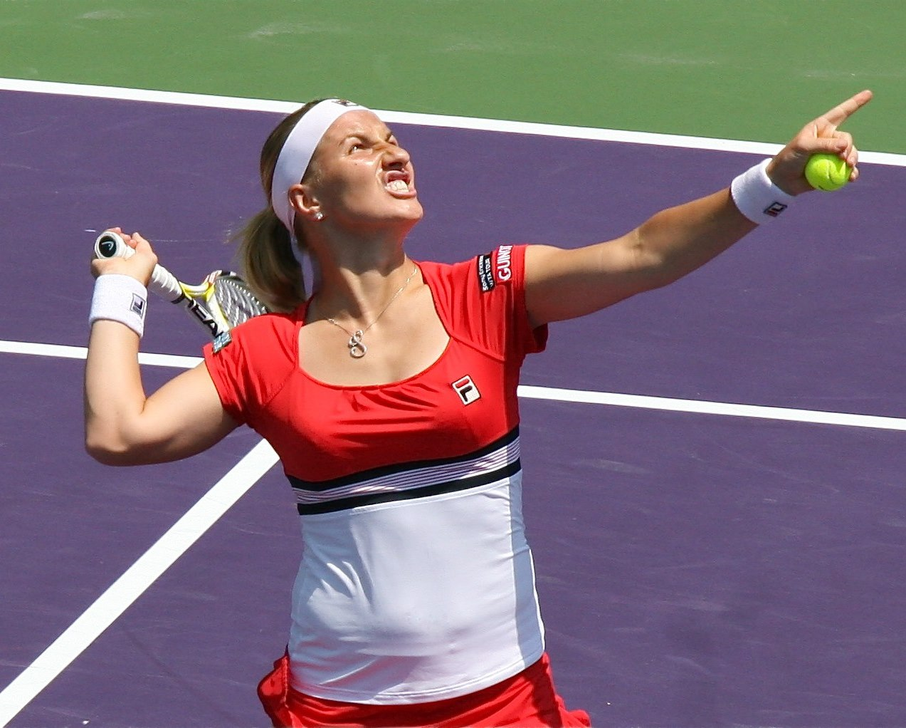 Svetlana Kuznetsova at 2009 Sony Ericsson Open, Miami, Florida, United States